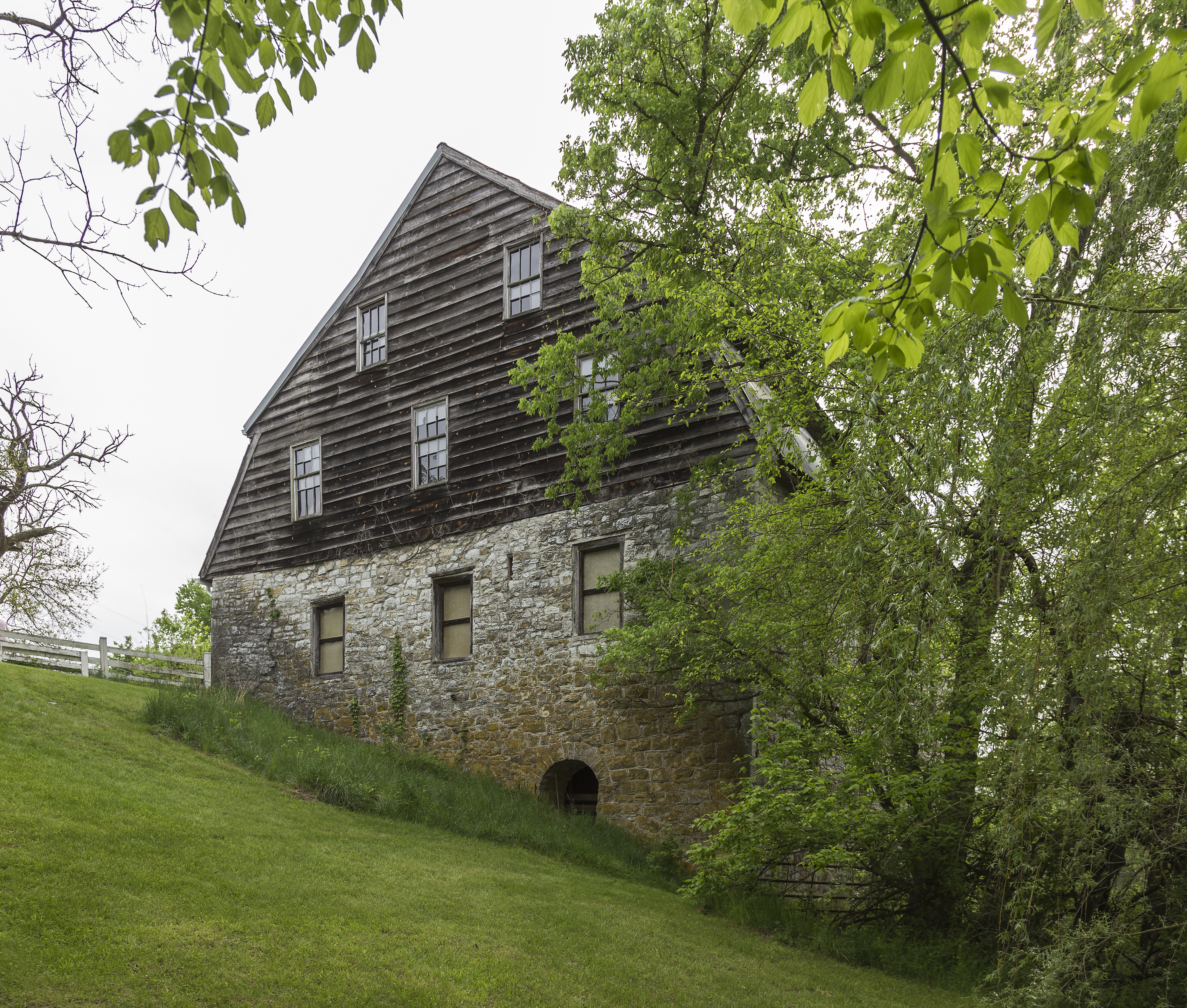 Bedinger Mill at Lick Run Plantation, Bedington, West Virginia, USA